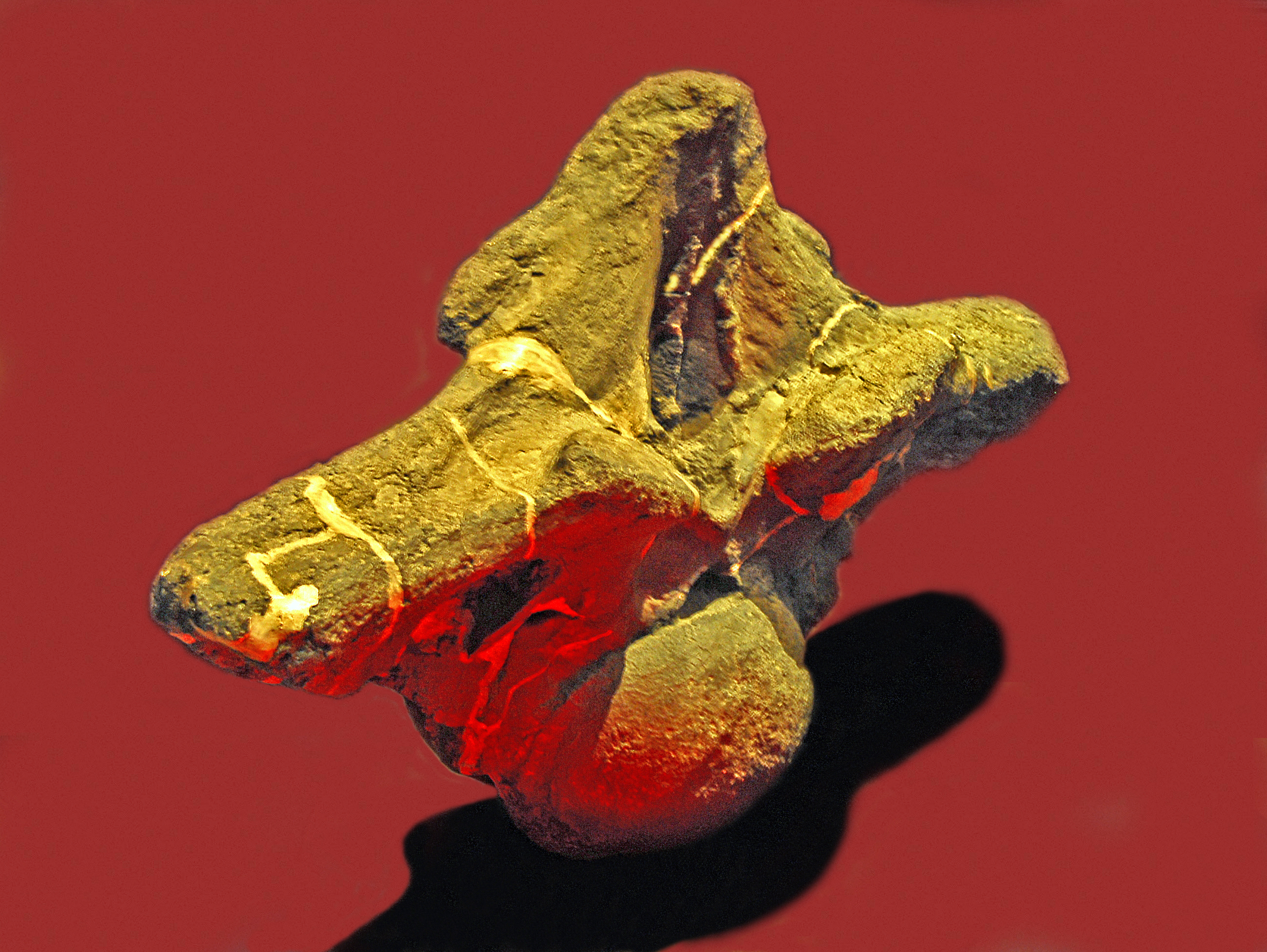 Dorsal vertebra of Puertasaurus reuili.